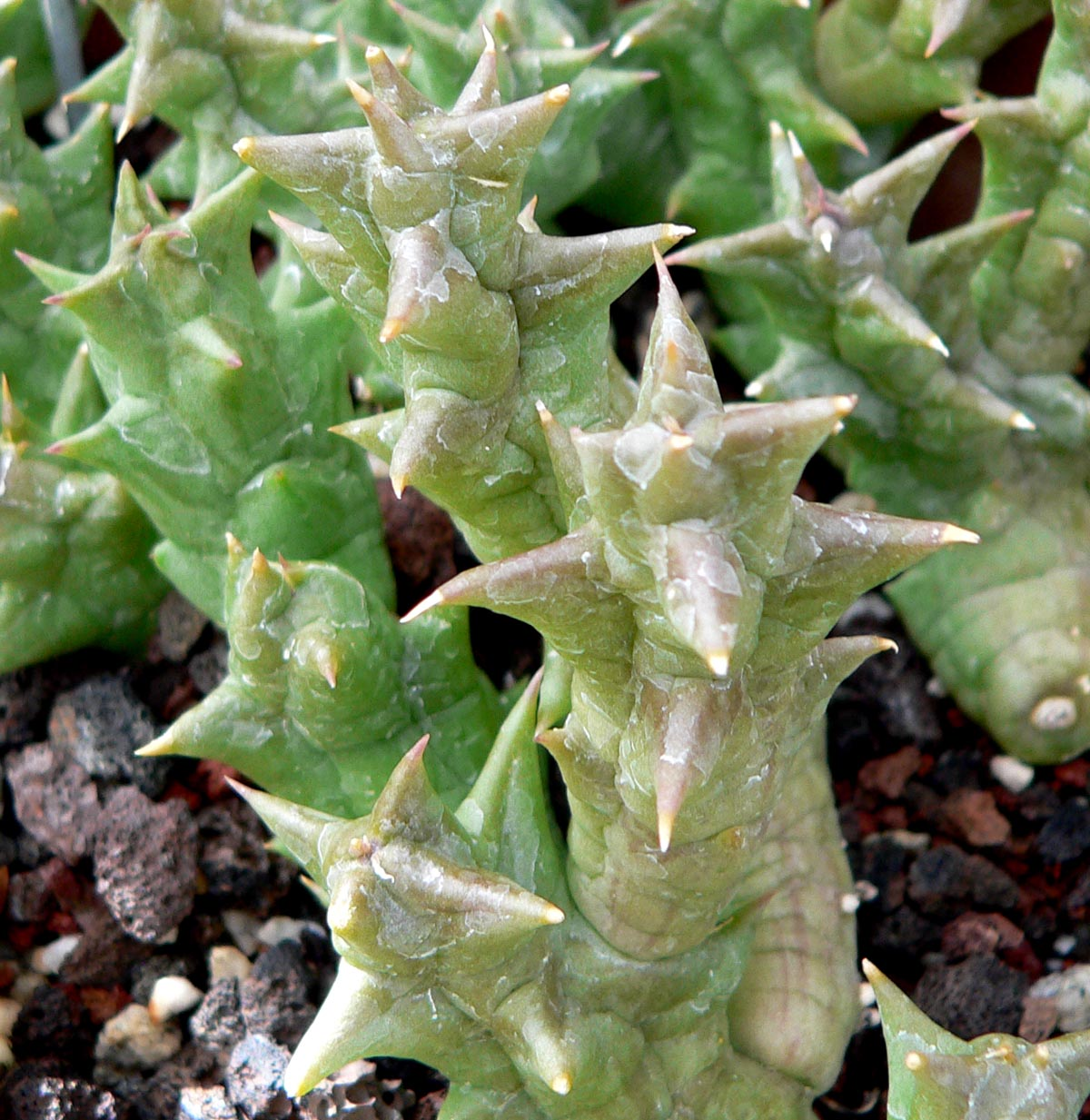 Photo of Orbea namaquensis at the University of California Botanical Garden